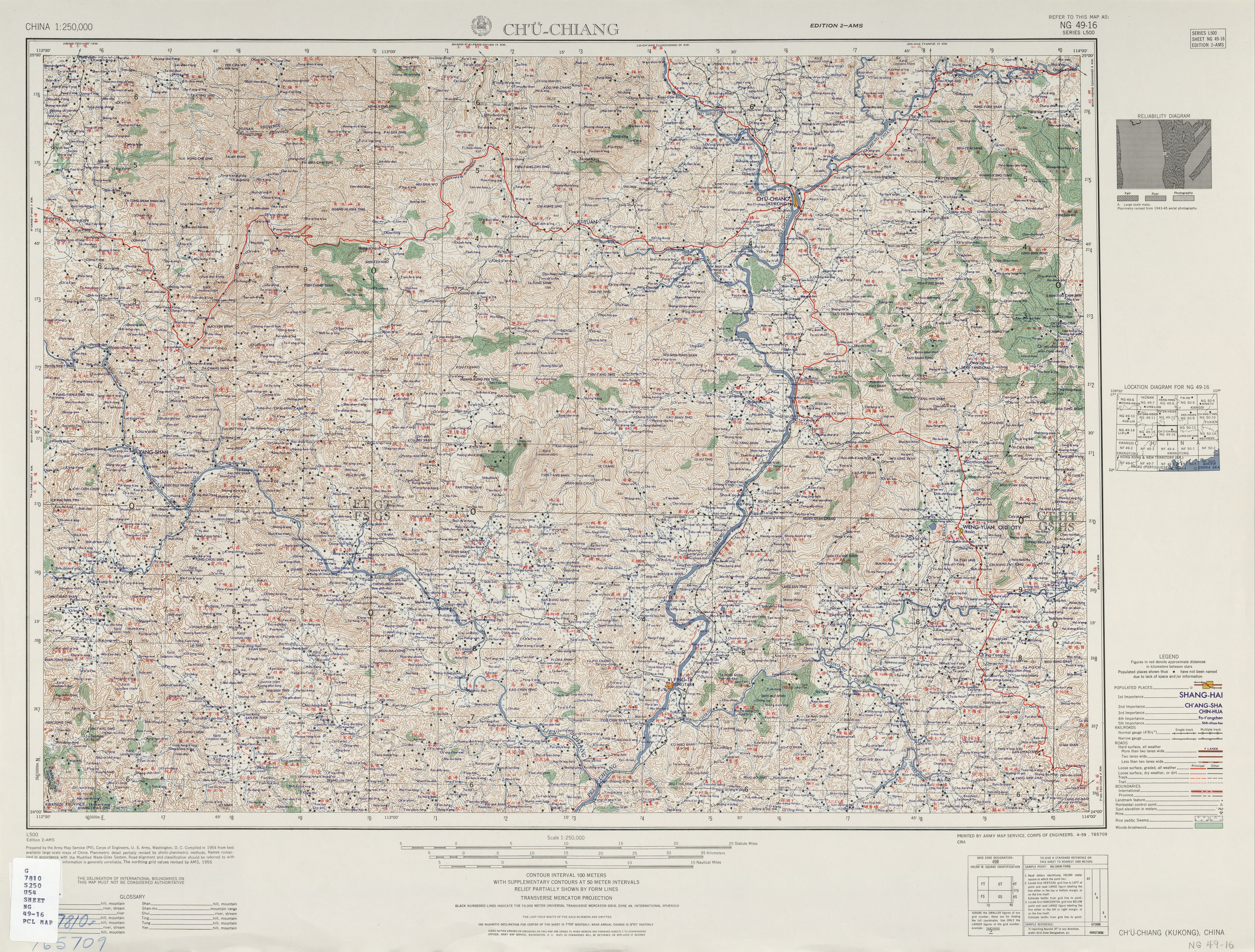 China AMS Topographic Maps